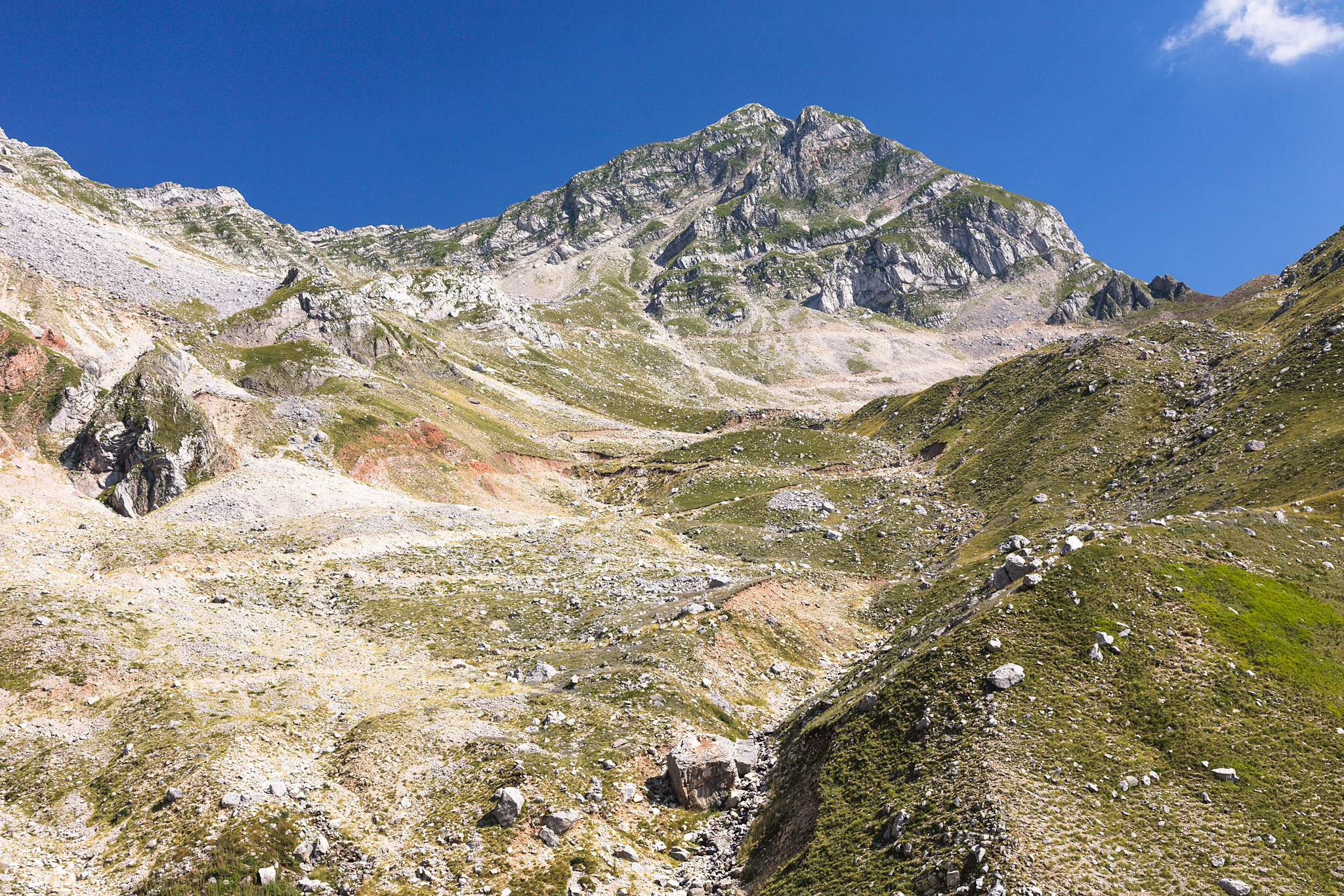 Katafidi peak in Tzoumerka, Greece